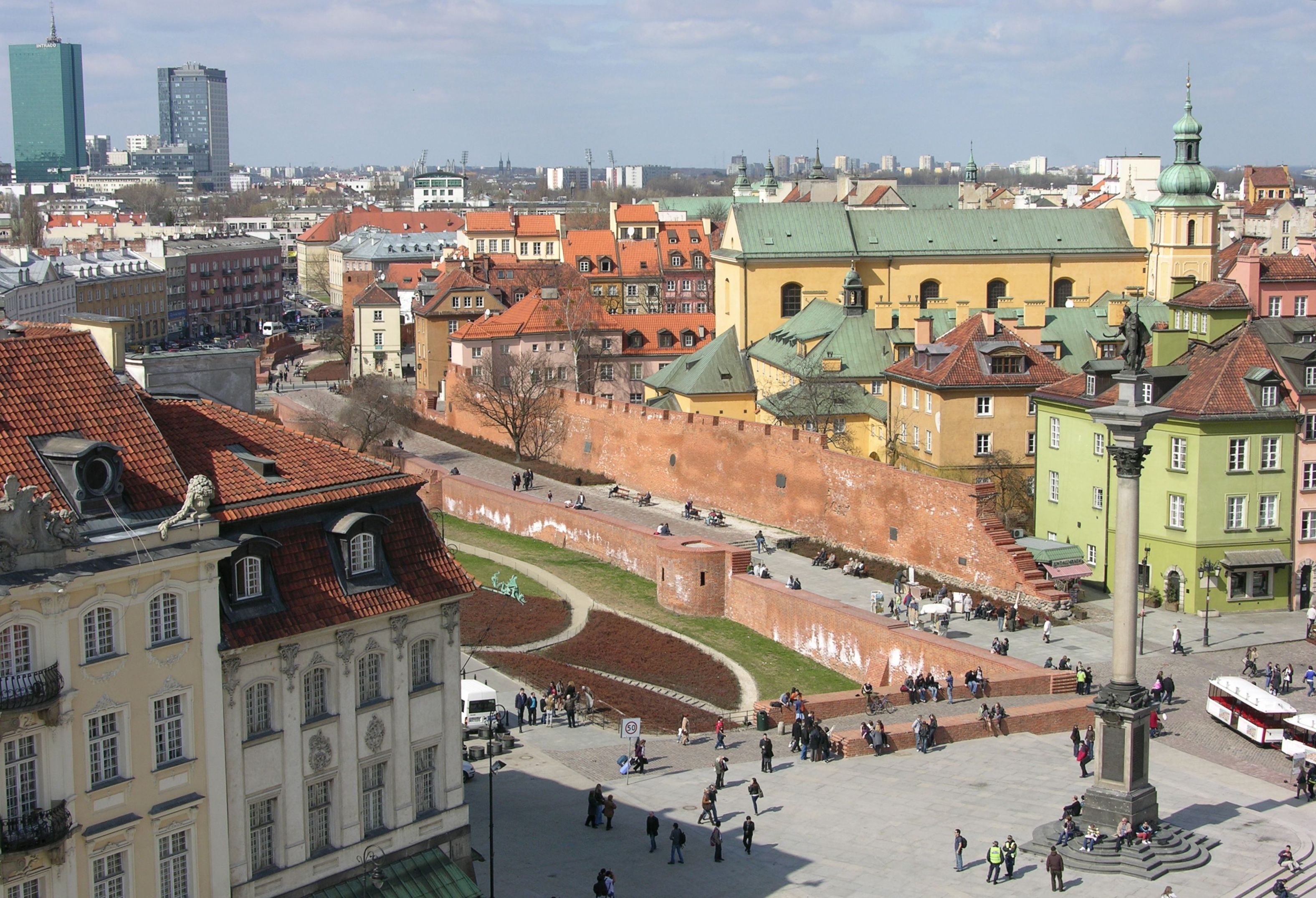 Defensive walls along Podwale Street in Warsaw